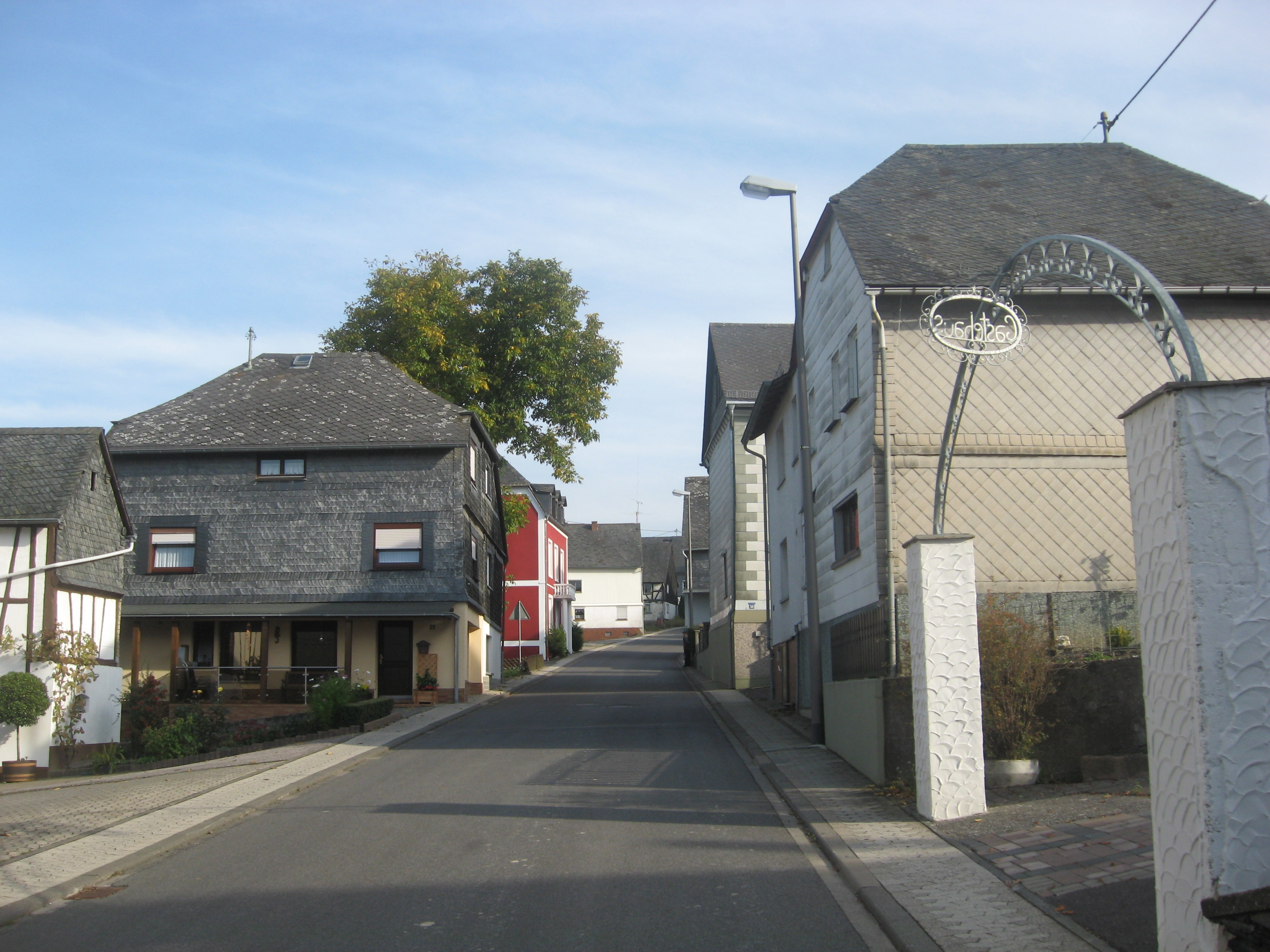 Village Altlay in the Hunsrück landscape, Germany.